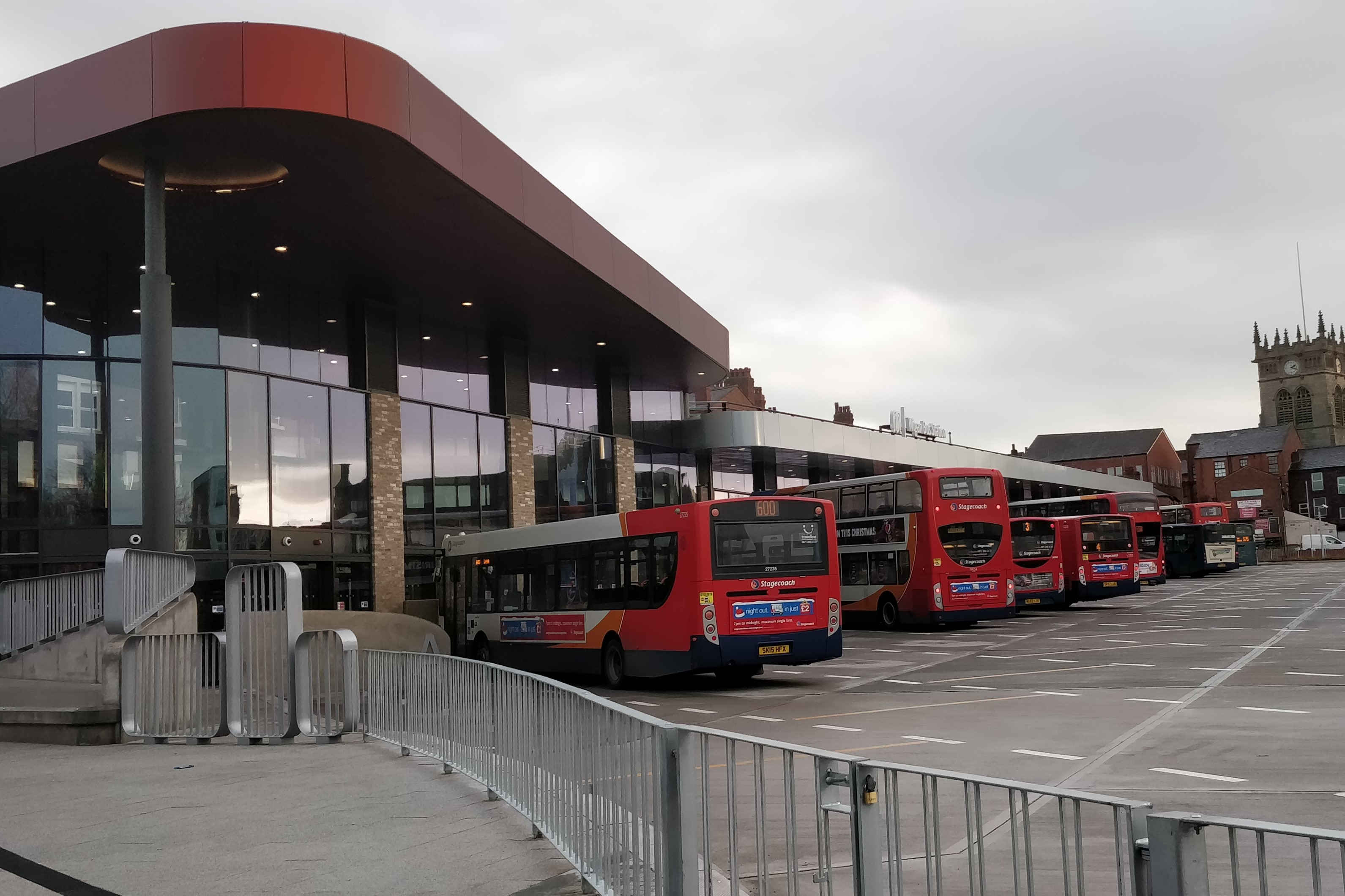 The redeveloped bus station in Wigan, Opened in October 2018.